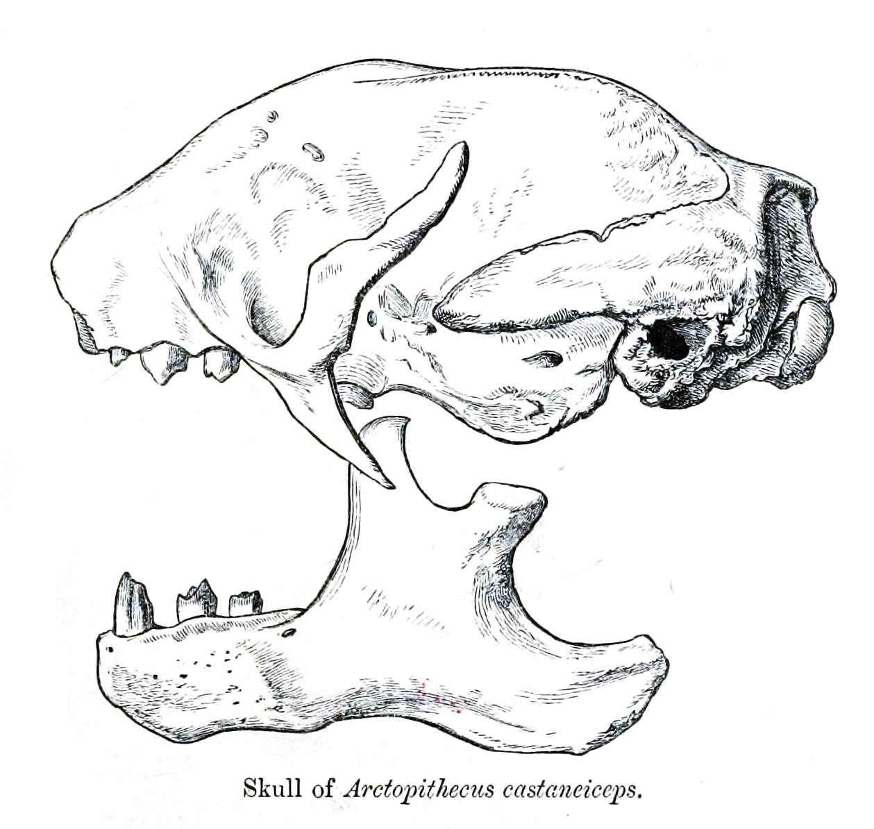 Brown-throated Sloth, skull from lateral